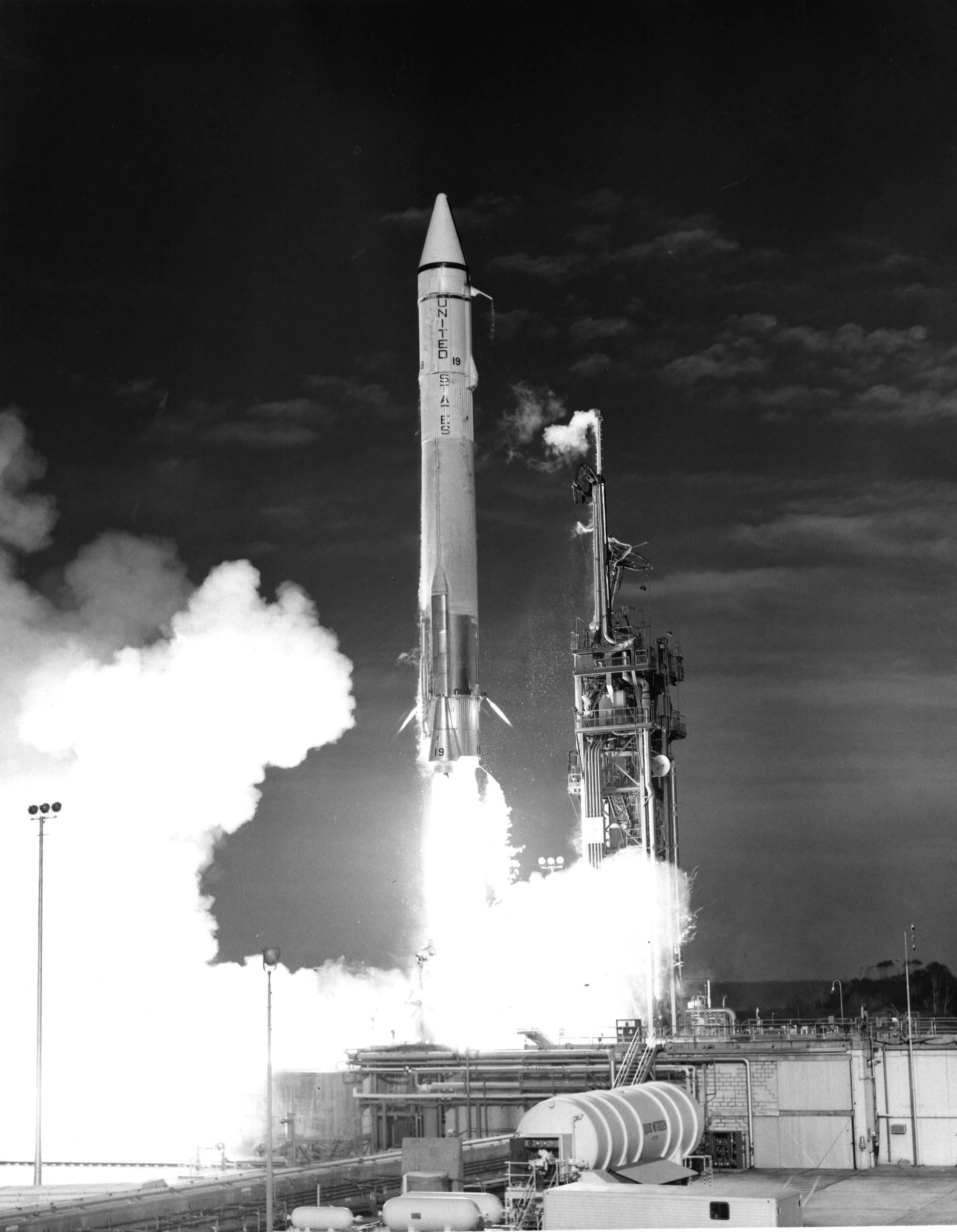 An Atlas-Centaur was launched at 5:22 p.m. EST today to send Mariner 7 on its way to Mars. The second Mars probe to be launched by the KSC Unmanned Launch Operations Directorate this year, Mariner 7 will join a sister spacecraft on a journey that will carry them within 2,000 miles of the red planet this summer. Mariner 6 was launched from Cape Kennedy on Feb. 24 and is to investigate the Martian equatorial area while Mariner 7 will concentrate on the South Polar Cap.